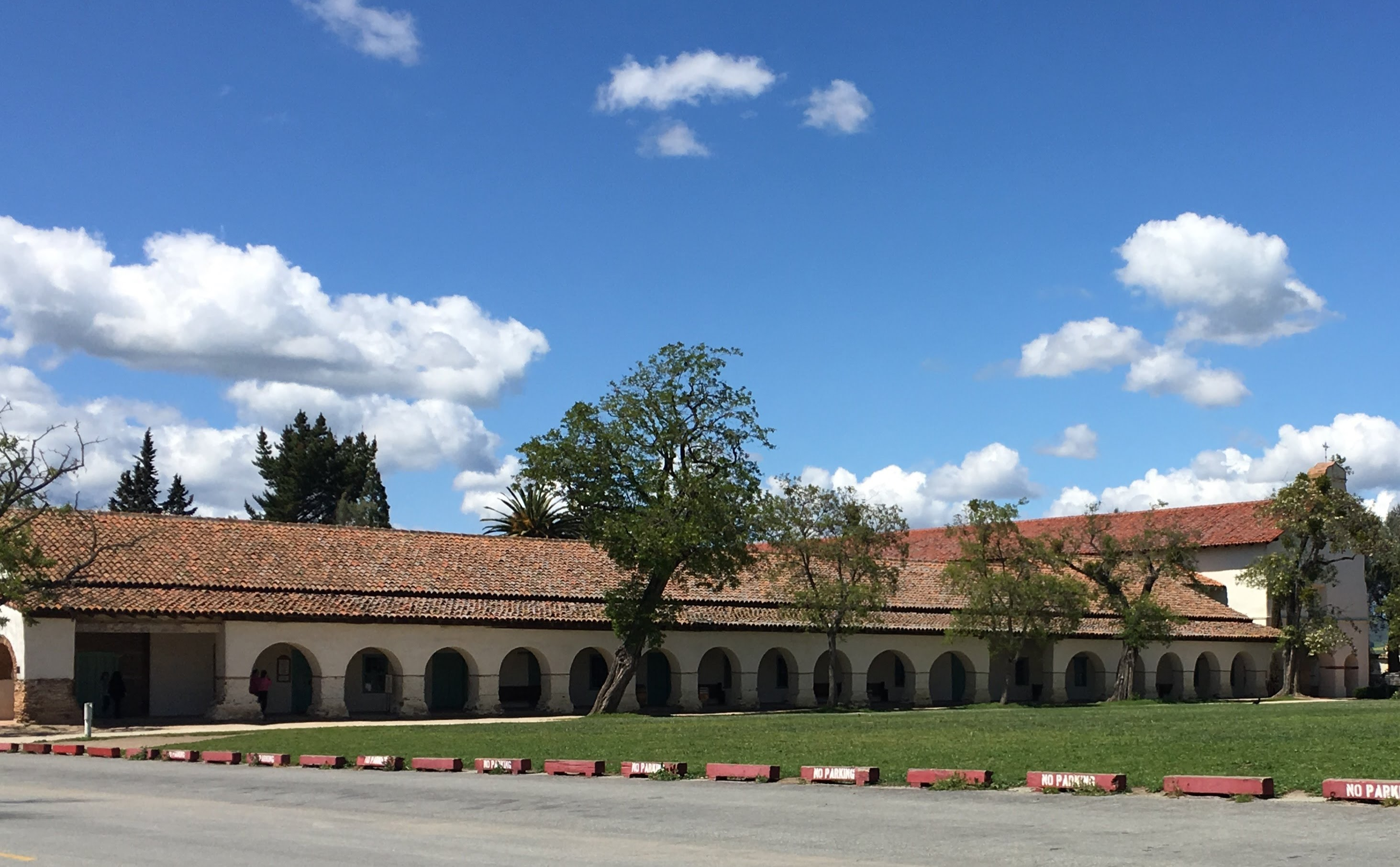 A Mission in San Benito County, California founded in 1797 by Farmin Lasuen of the Franciscan order. Named for Saint John the Baptist